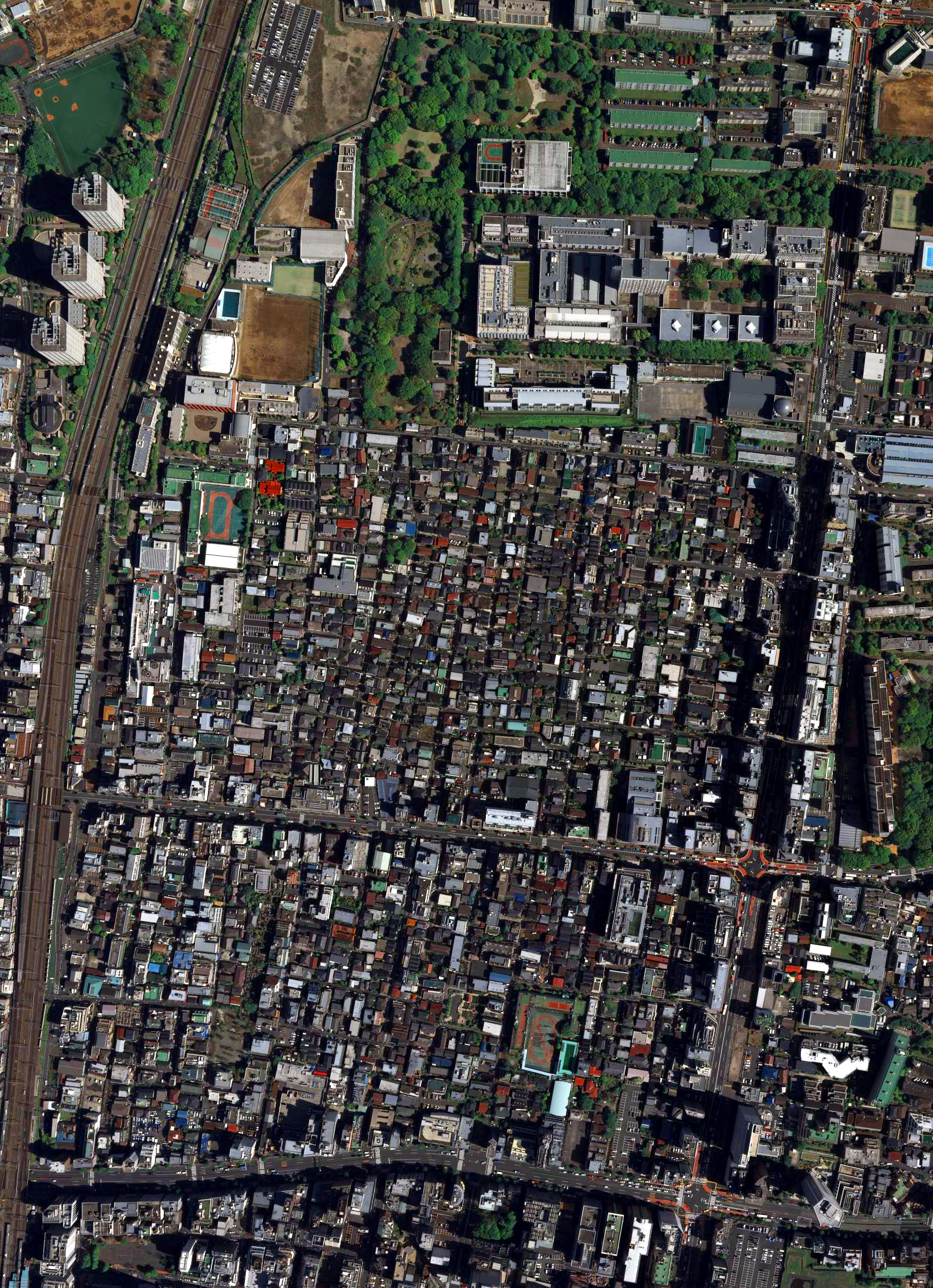 The Geographical Survey Institute took the aerial photograph in Shinjuku Ward, Tōkyō Metropolis on April 27, 2009.